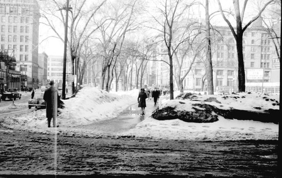 Pedestrians cross the Victoria Square in Montreal.